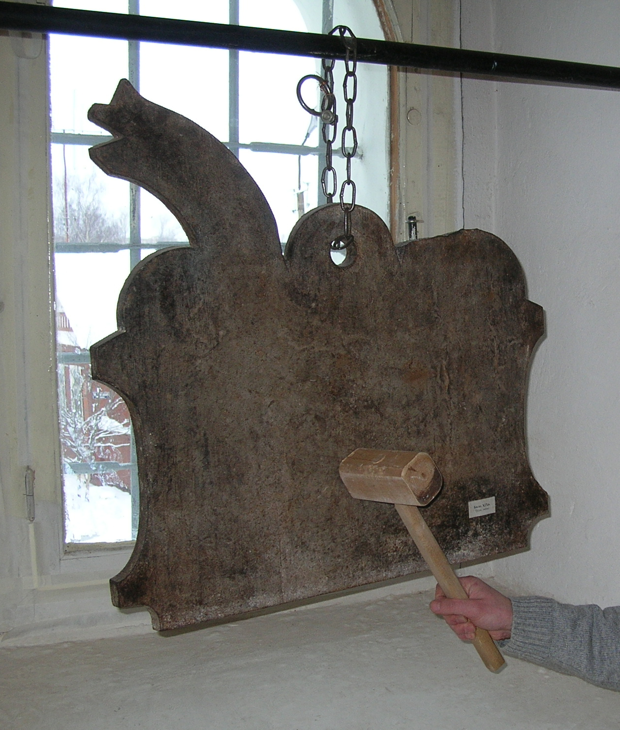 The displays of Staraya Russa historical Museum. Russia